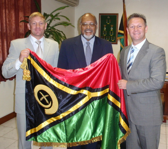 Edward Natapei (center) in Vanuatu flag presentation ceremony to foreign diplomats. Trade Commissioner visit to Vanuatu Prime Minister.